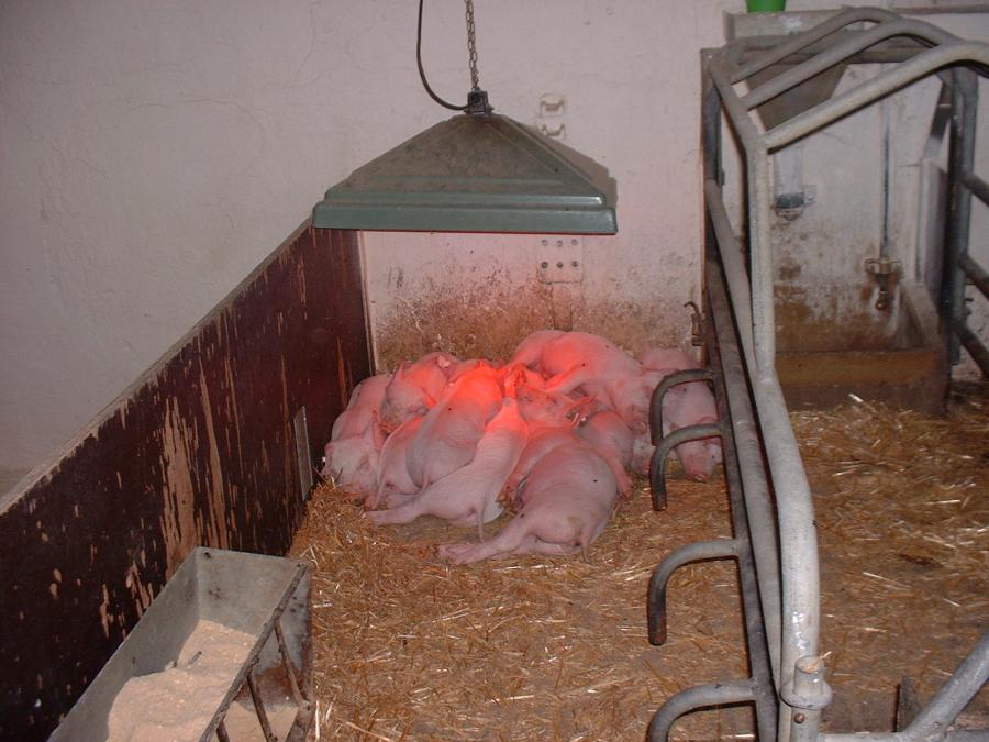 piglets under a heat lamp in a farrowing crate